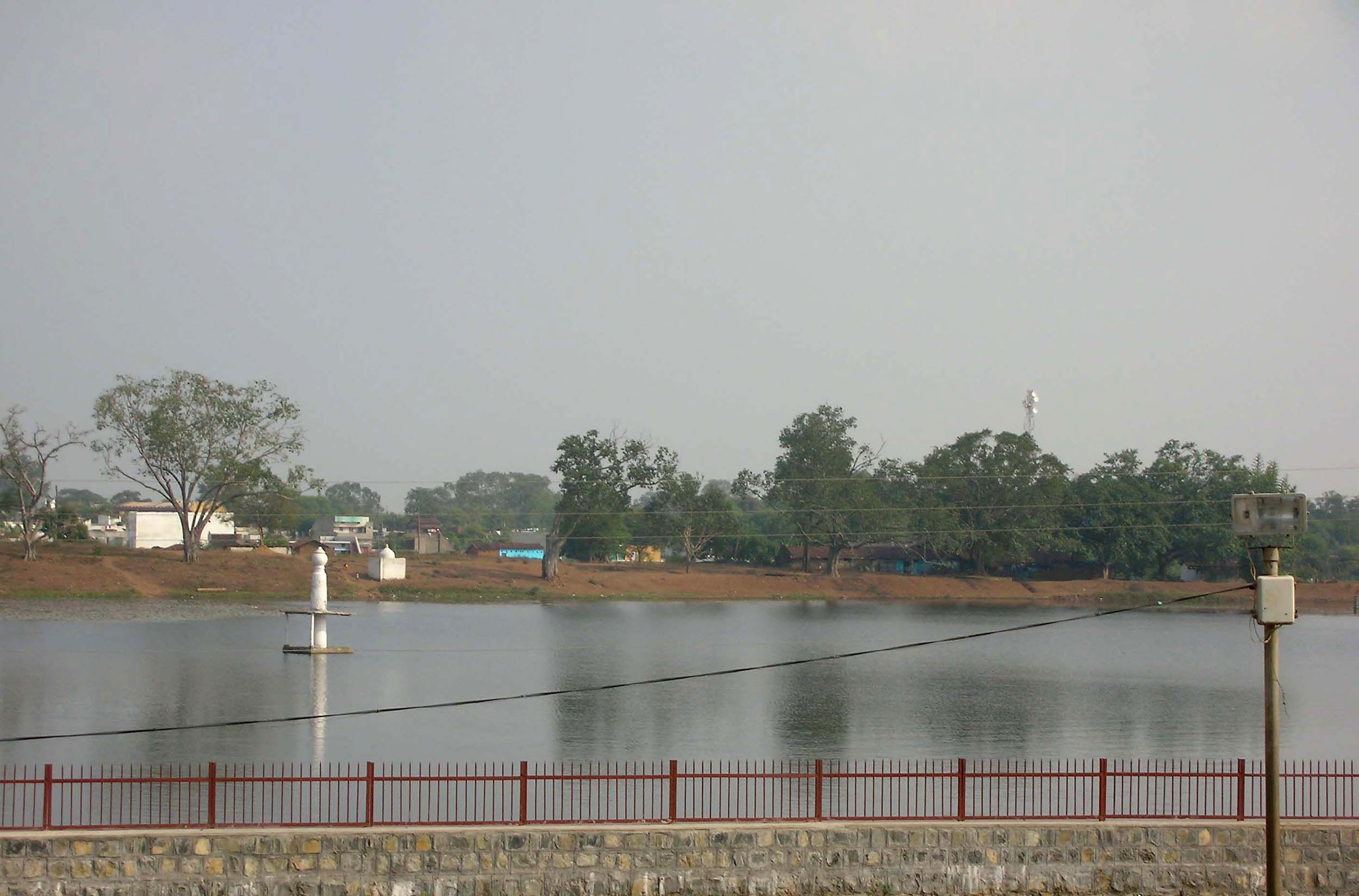 Bheem Taal in front of Janjgir Vishnu Temple